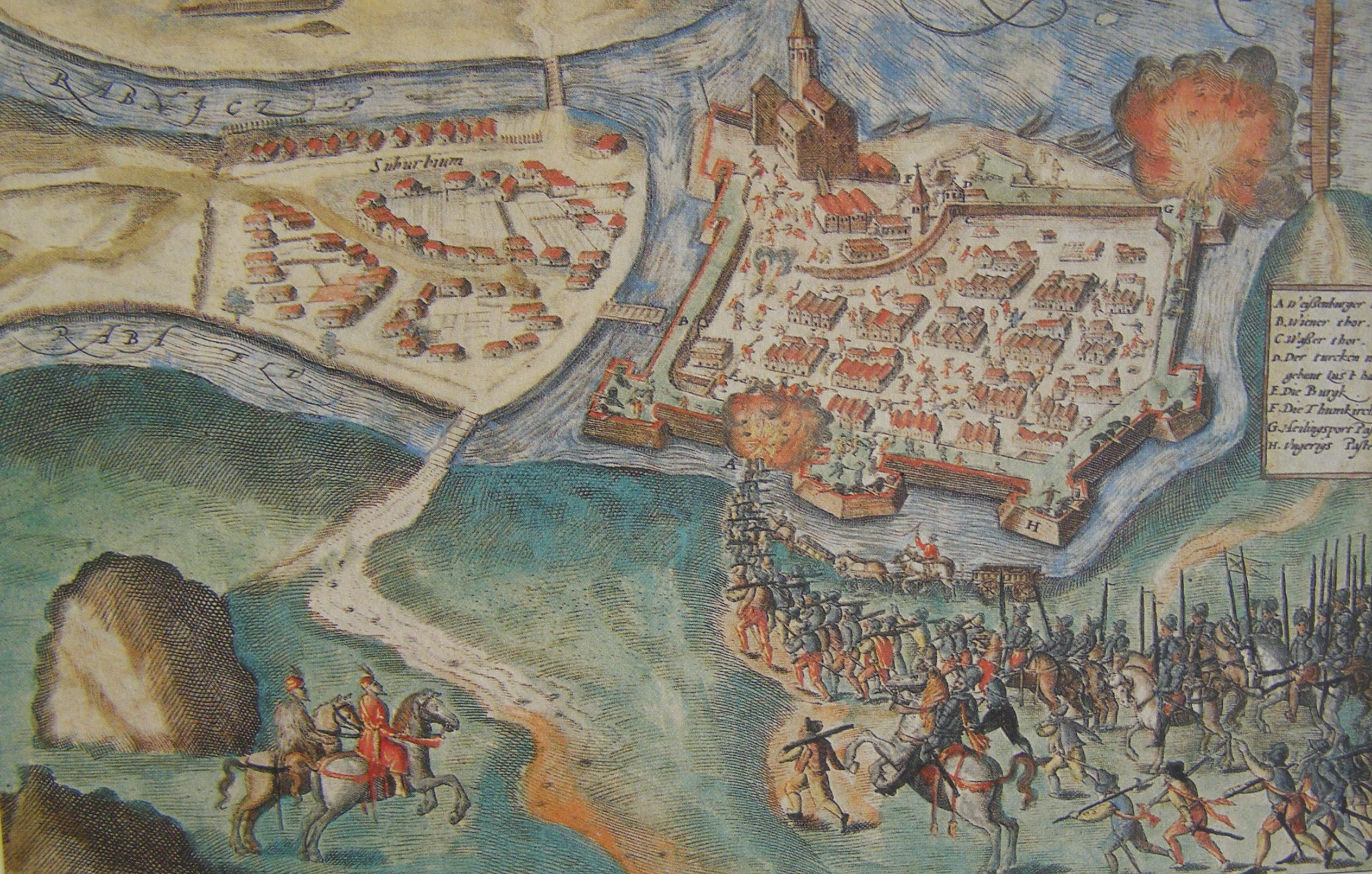 The German and Italian mercenaries give it the castle of Győr in 1594